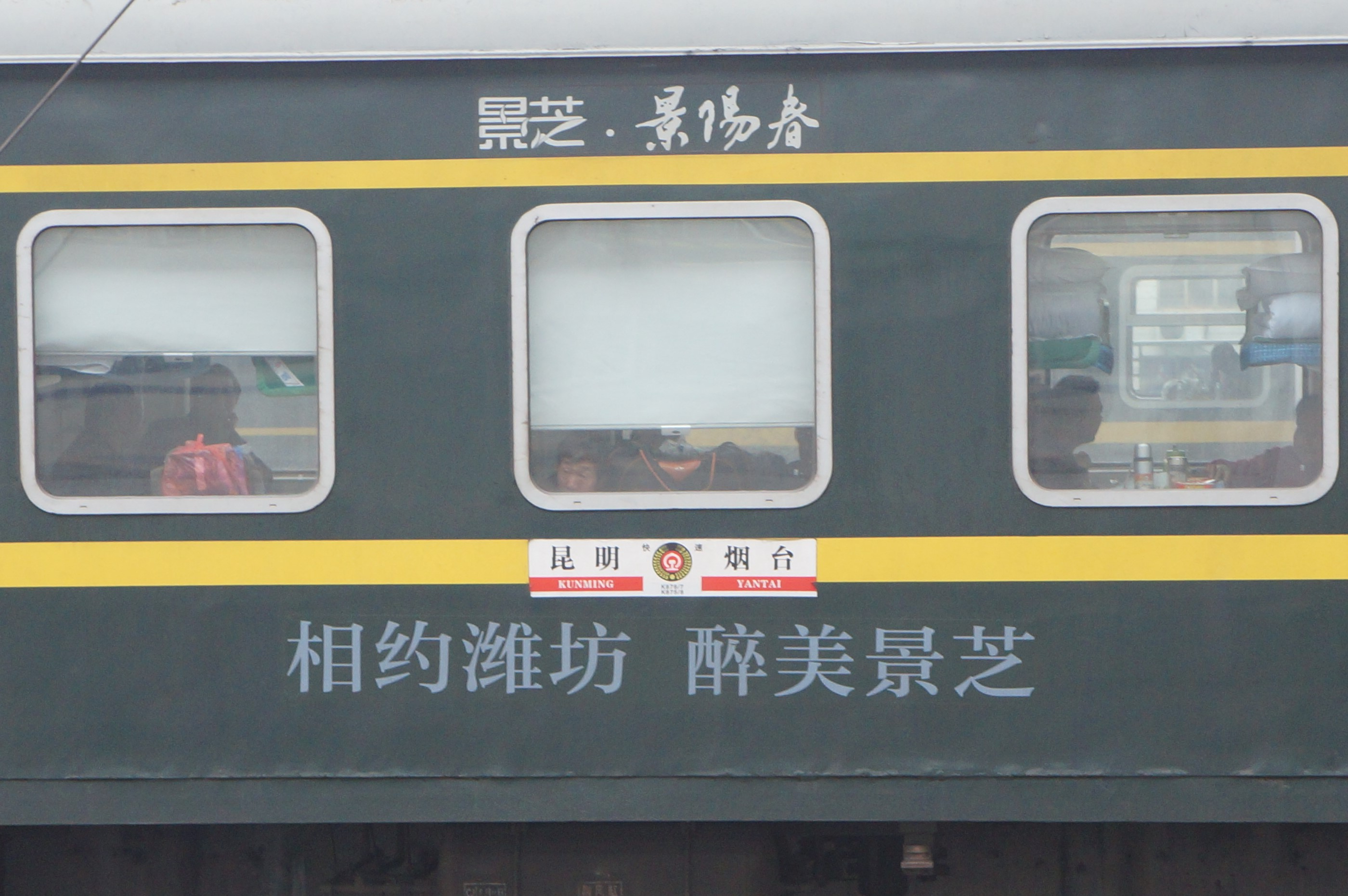 Taken at Jiujiang Station